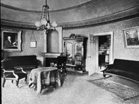 House of Joseph Barrell, Charlestown/Somerville, MA